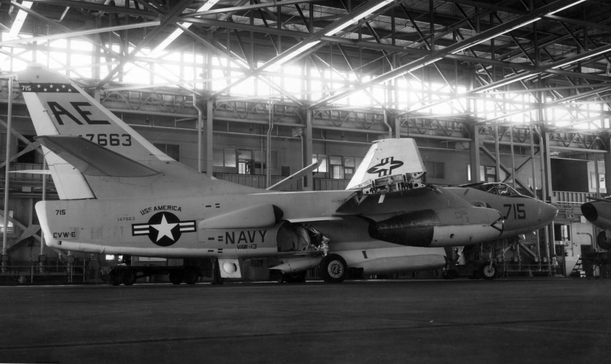 A U.S. Navy Douglas EKA-3B Skywarrior (BuNo 147663) from Airborne Early Warning Squadron VAW-13 Det.66 Zappers in a in a hangar at Naval Air Station Alameda, California (USA). The aircraft was attached to Attack Carrier Wing 6 (CVW-6) aboard the aircraft carrier USS America (CVA-66) for a deployment to Vietnam from 10 April to 16 December 1968.